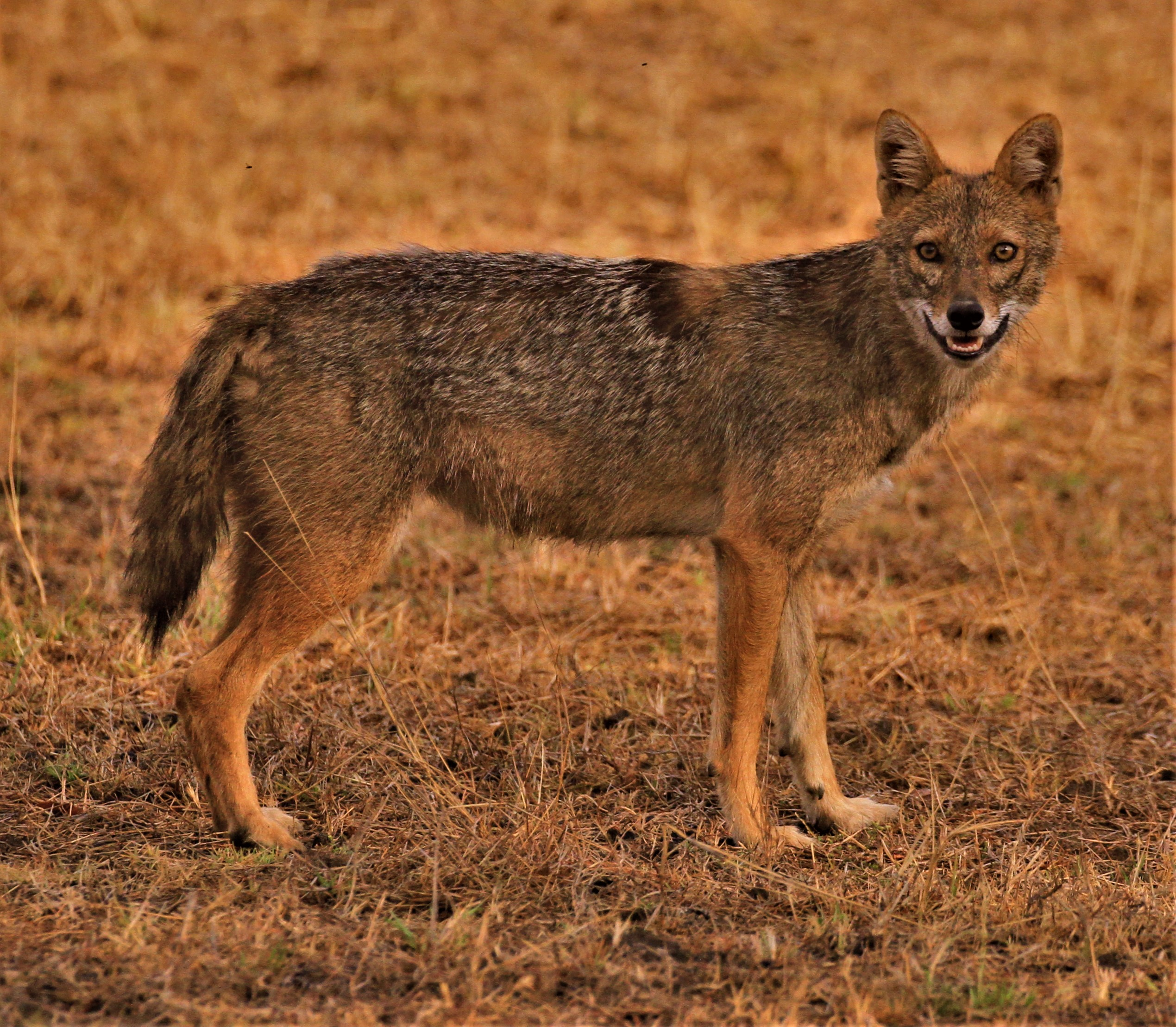 Golden jackal in Kanha National Park